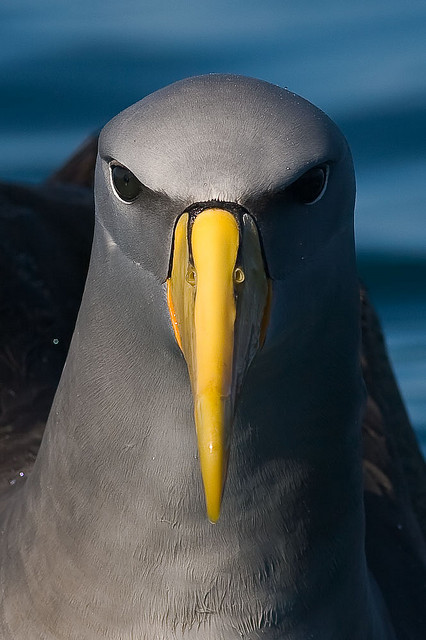 Photograph of a Chatham albatross taken at Kaikoura, New Zealand, by Craig Nash (Peregrine bird photography)